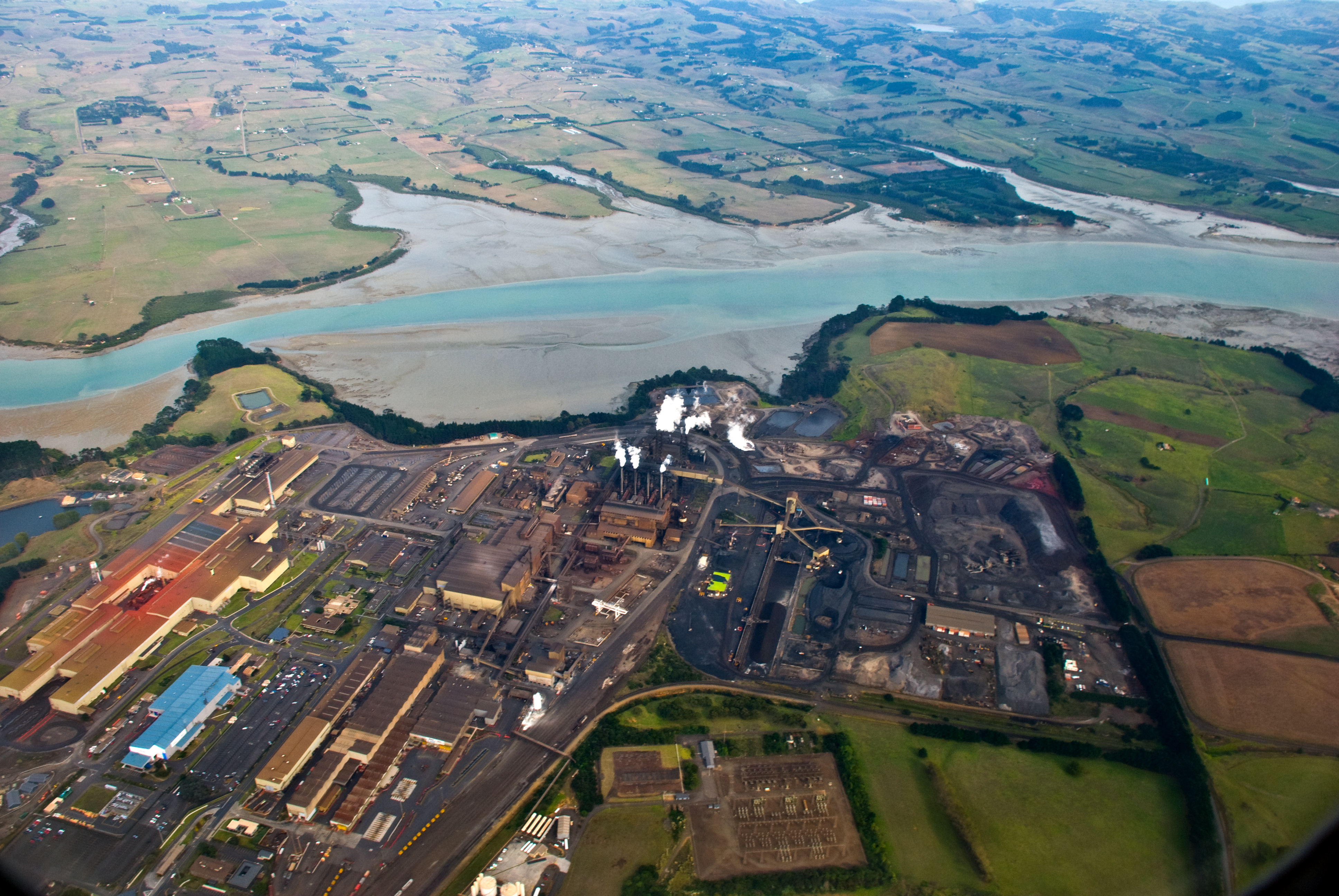 Glenbrook Steel Mill, Auckland, New Zealand as seen from the air.